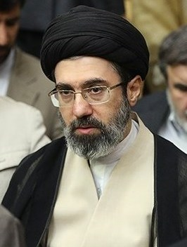 Hojjat-ol-Islam Sayyed Mojtaba Khamenei